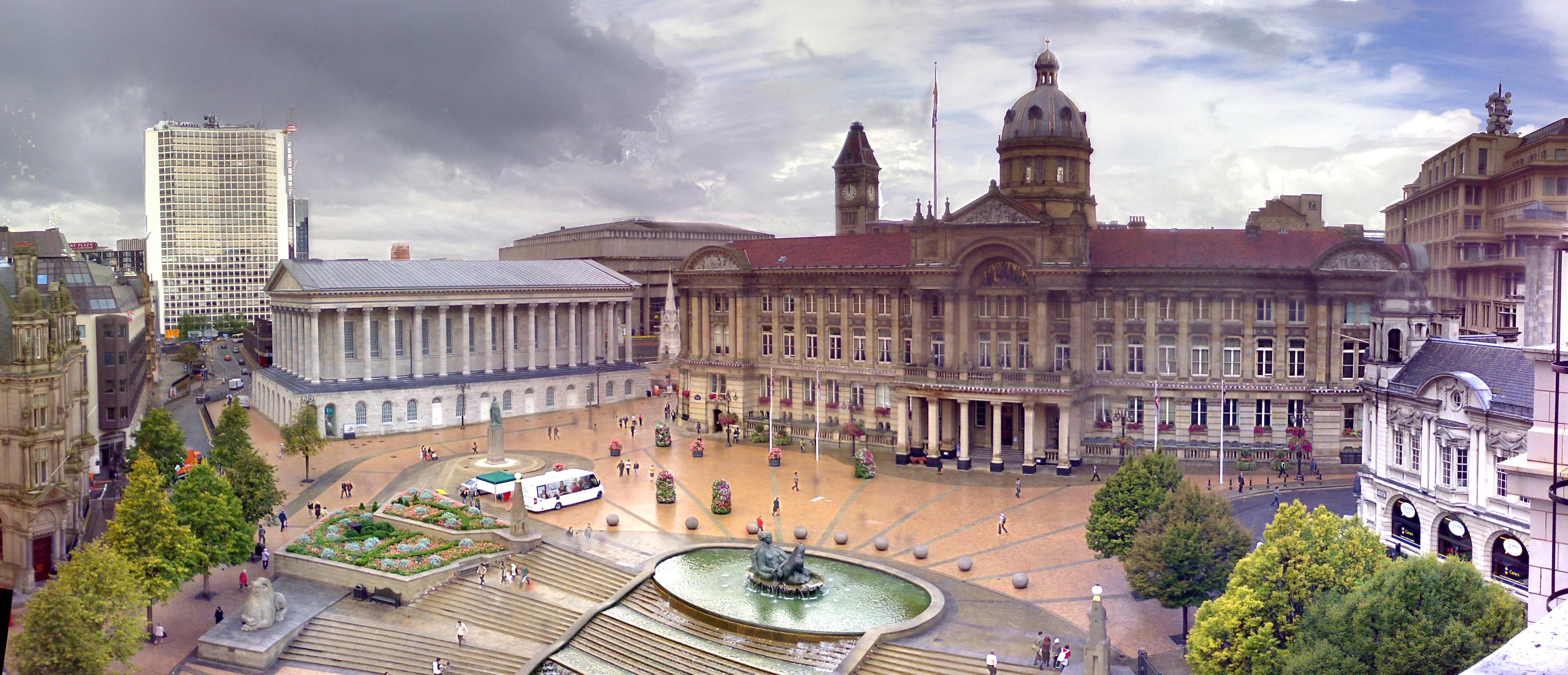 Birmingham Town Hall on left. Shot taken from a nearby building, composite image